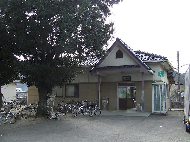 Kaiganji Station on Yosan Line